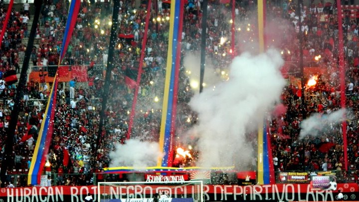 Huracán Rojinegro